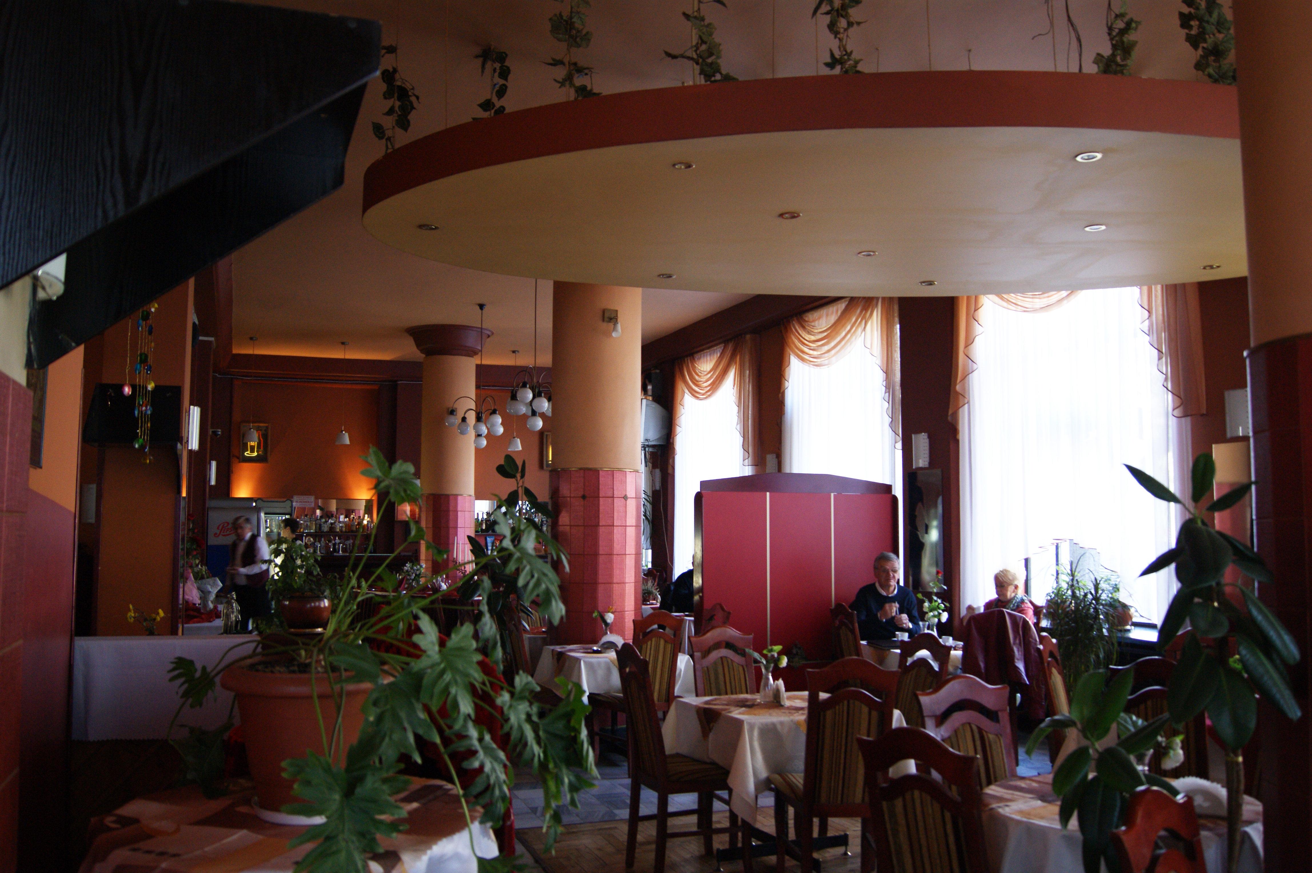 Stylowa Restaurant (interior), 3 osiedle Centrum C, Nowa Huta, Krakow, Poland